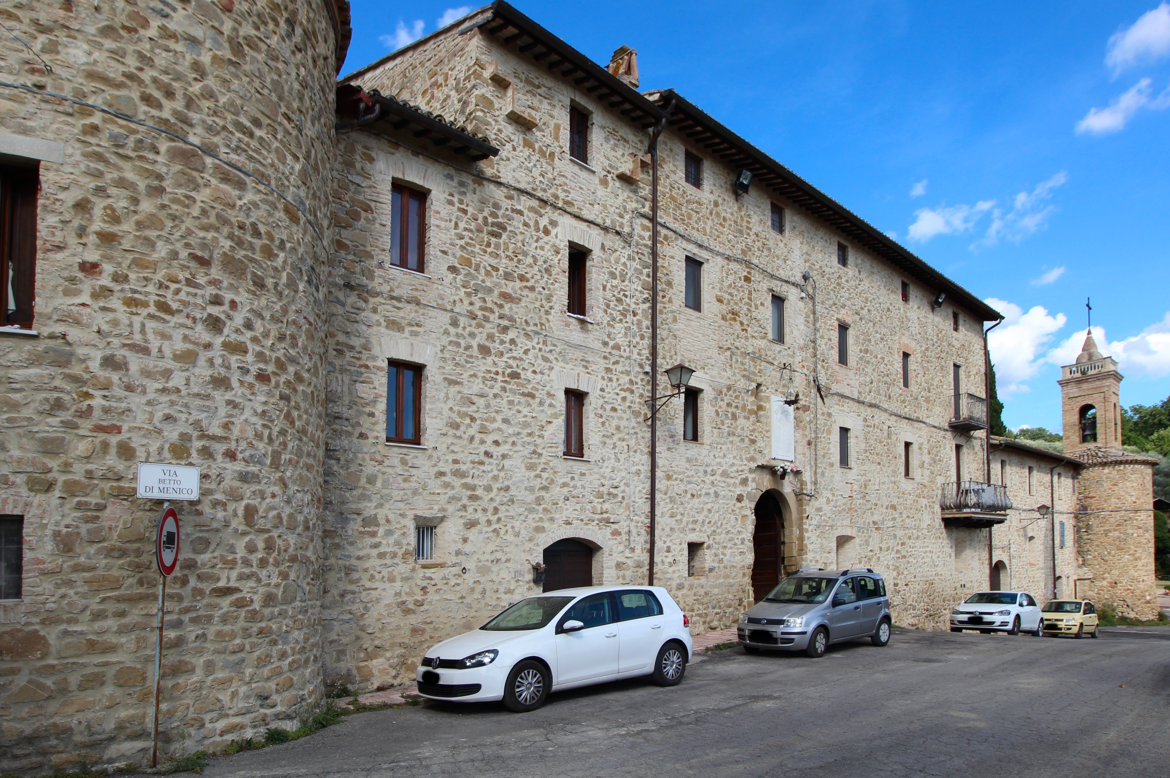 Tordibetto, hamlet of Assisi, Province of Perugia, Umbria, Italy